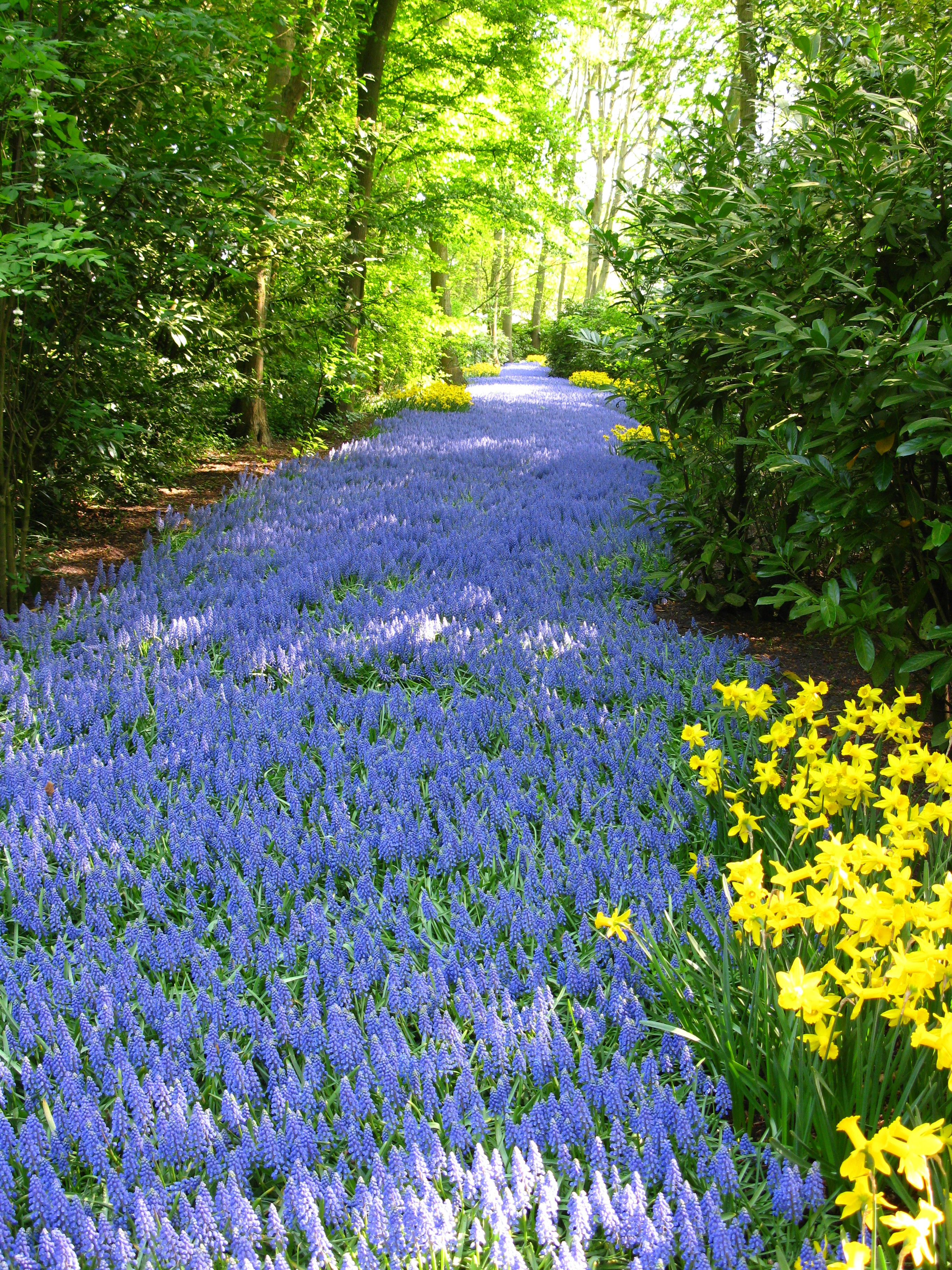 Muscari in Keukenhof flower garden